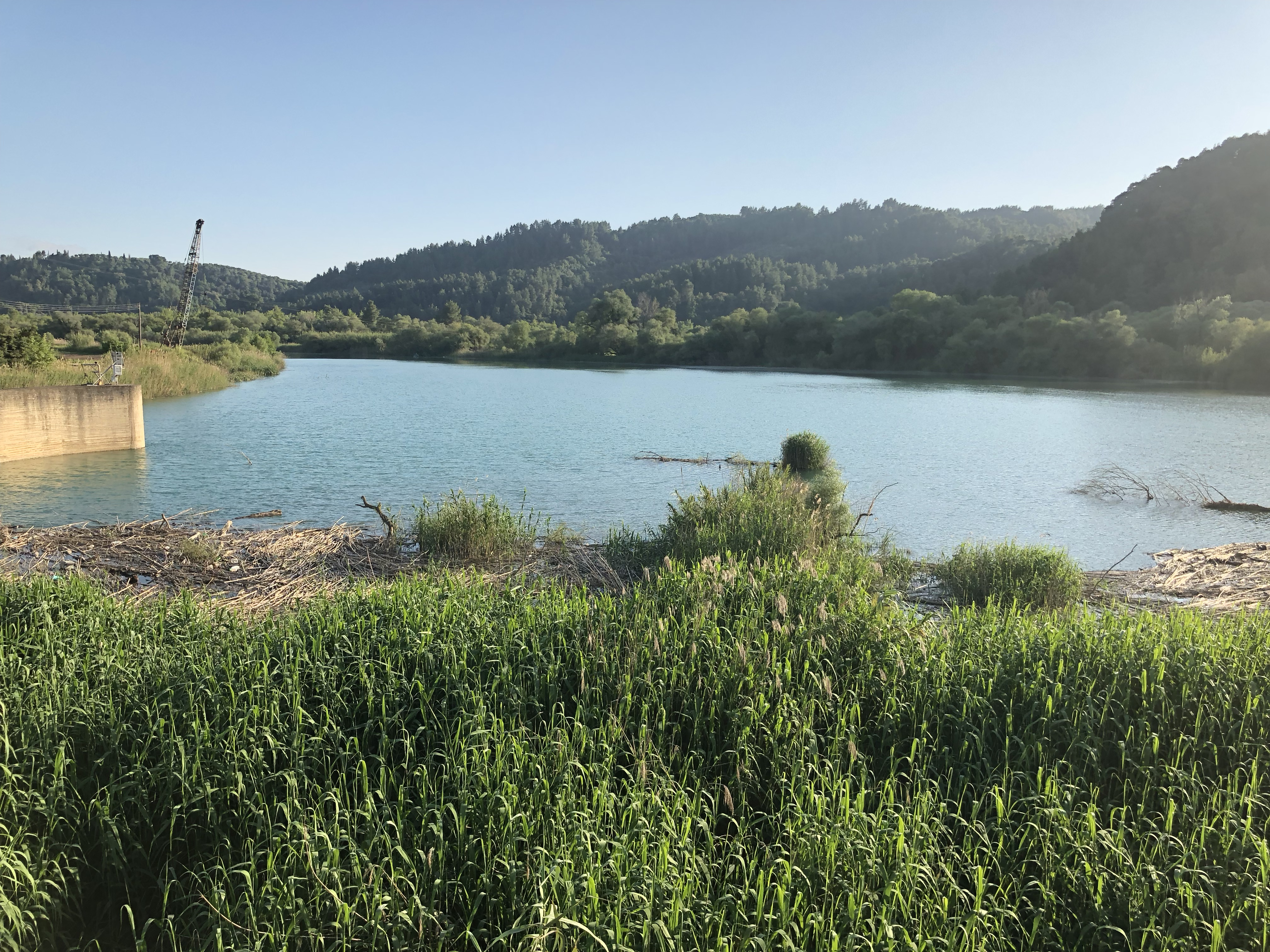 Alpheios